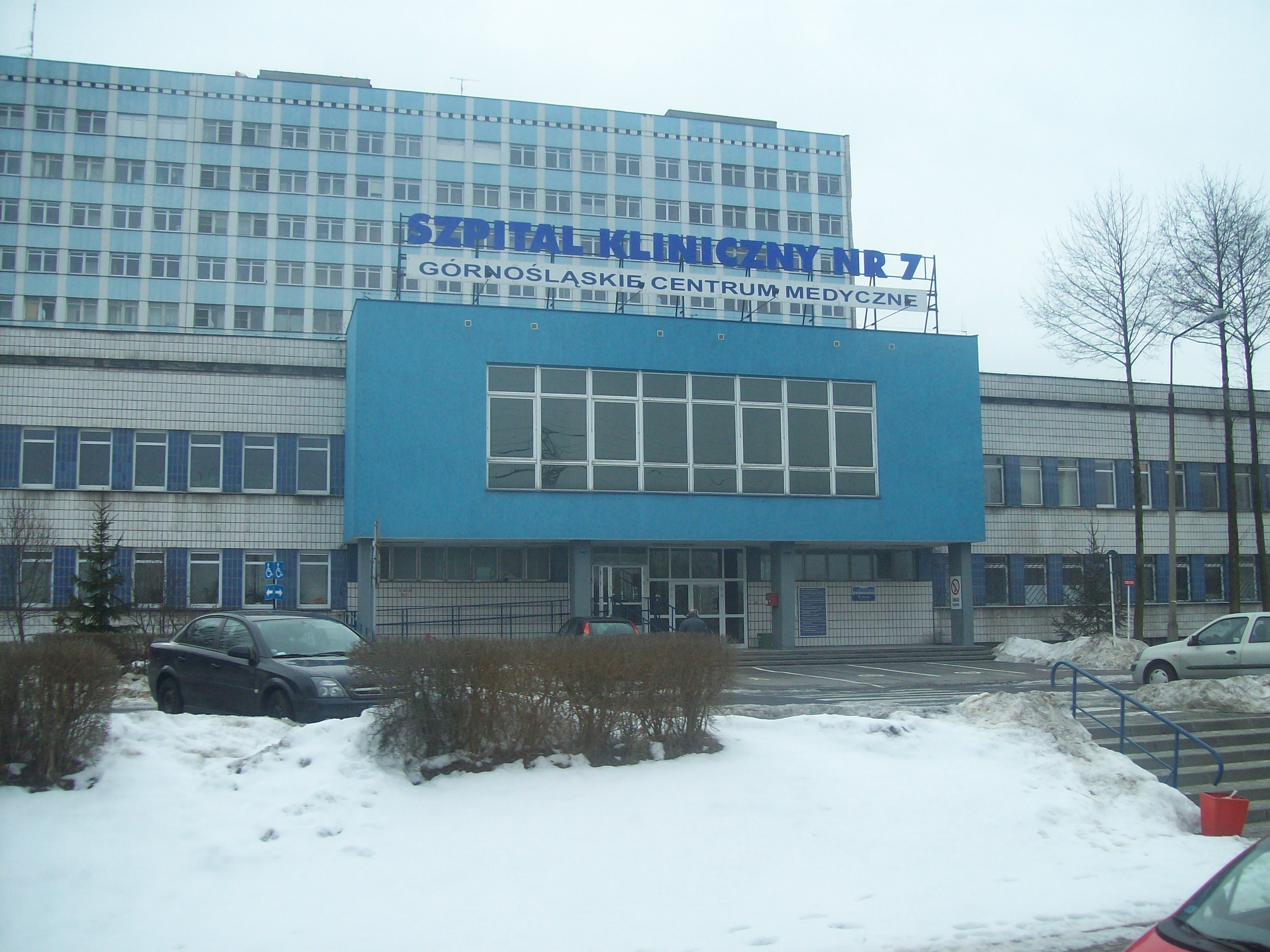 Samodzielny Publiczny Szpital Kliniczny Śląskiej Akademii Medycznej w Katowicach – Górnośląskie Centrum Medyczne.